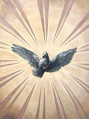 fresco at the Karlskirche in vienna (by Johann Michael Rottmayr)